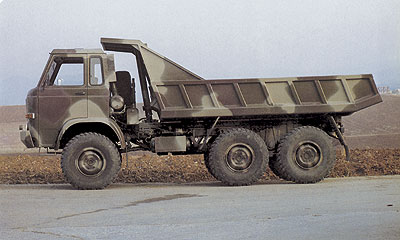 A photograph of Namco Milicar (6x6 version) from my book 'Made in Greece'.